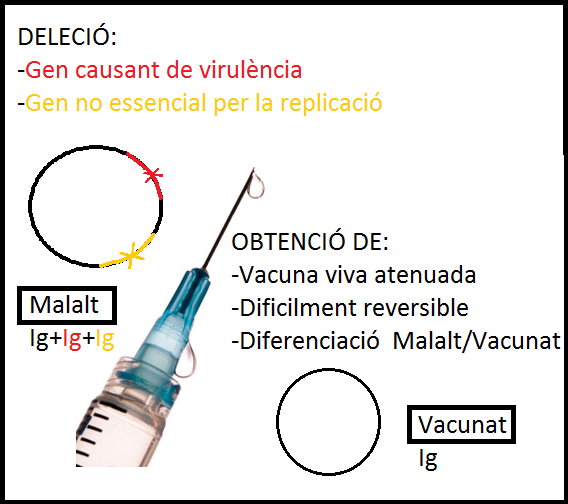 Esquema Visual